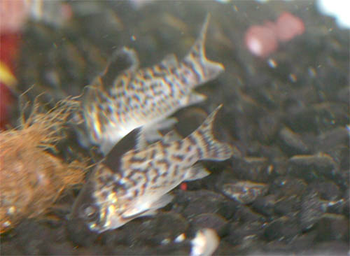 photo by me user debivort july 07